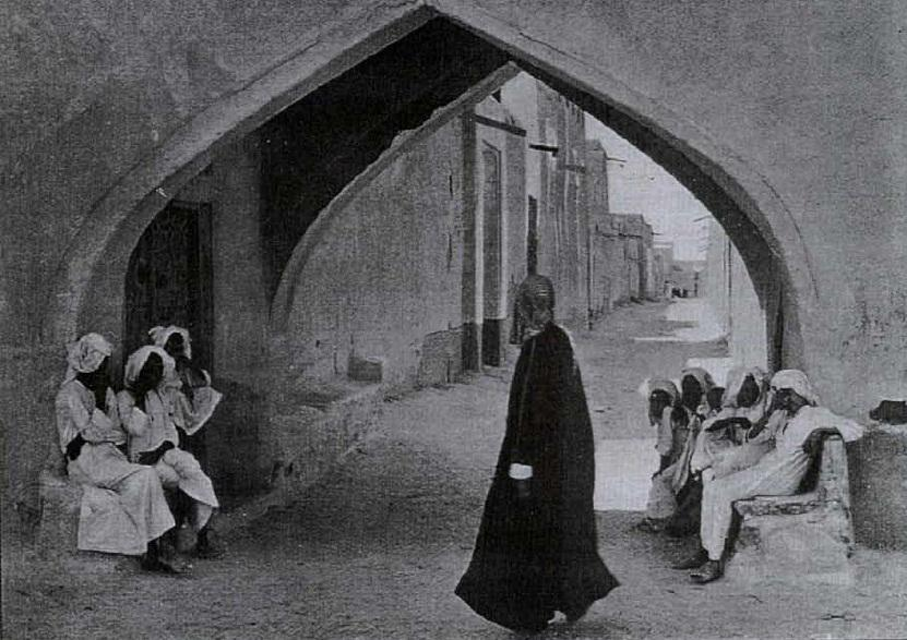 a traditional "Sabat" in Kuwait 1931.